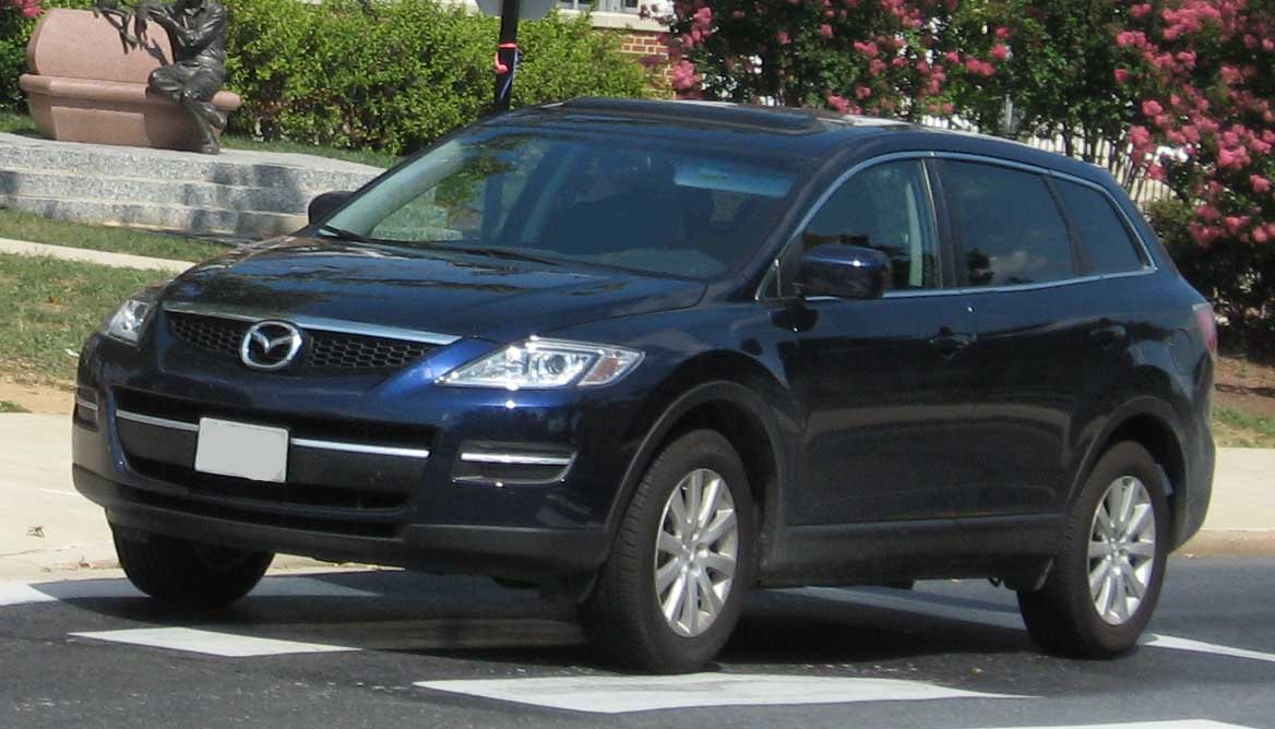 2007 Mazda CX-9 photographed in College Park, Maryland, USA.